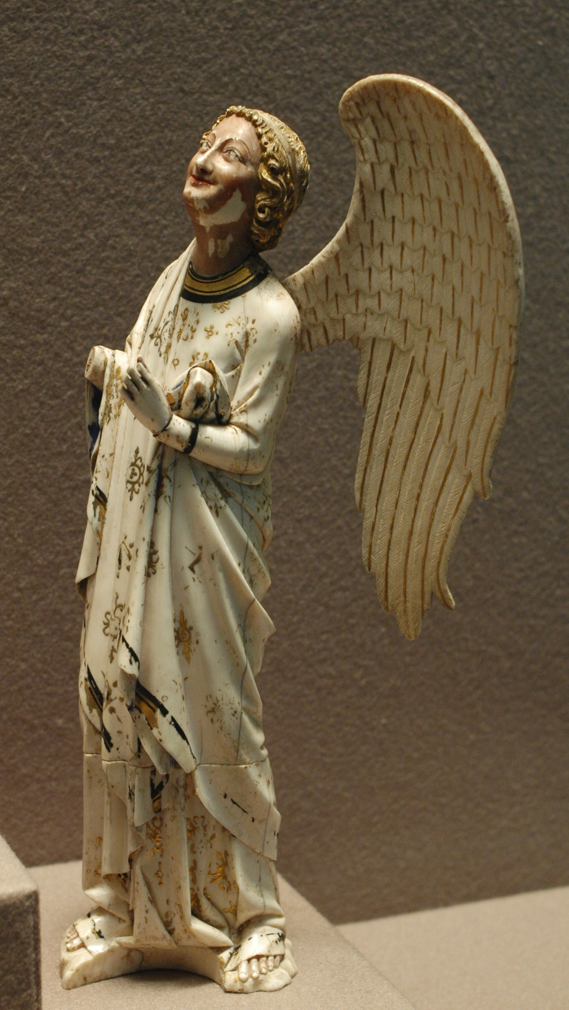 Angel, detail of a Crowning of the Virgin.